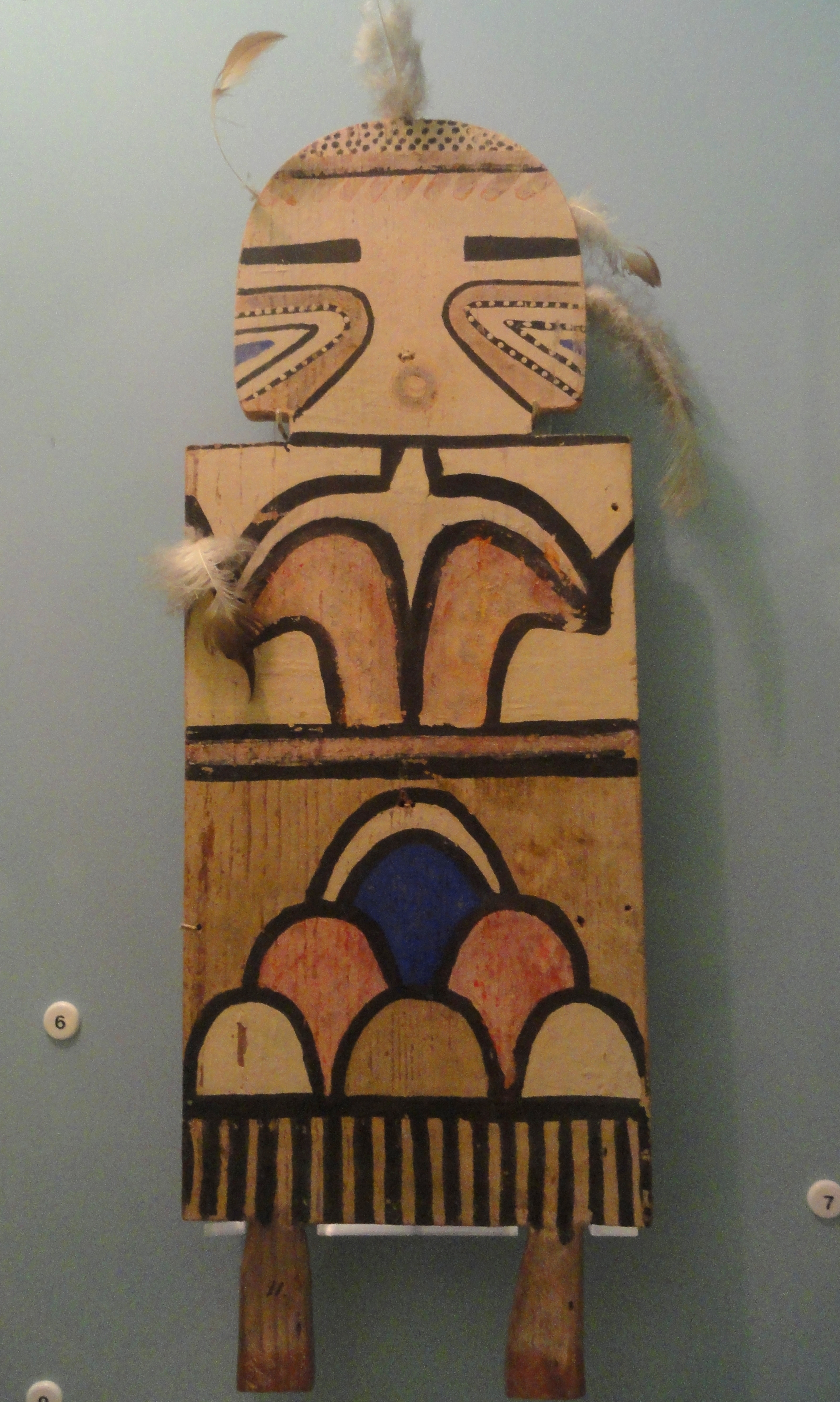 Paho, Hopi, for Mamzrauti dance, collected before 1892. Exhibit from the Native American Collection, Peabody Museum, Harvard University, Cambridge, Massachusetts, USA. Photography was permitted without restriction; exhibit is old enough so that it is in the public domain.